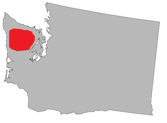 This shows where the habitats of Olympic marmots are located in the state of Washington.